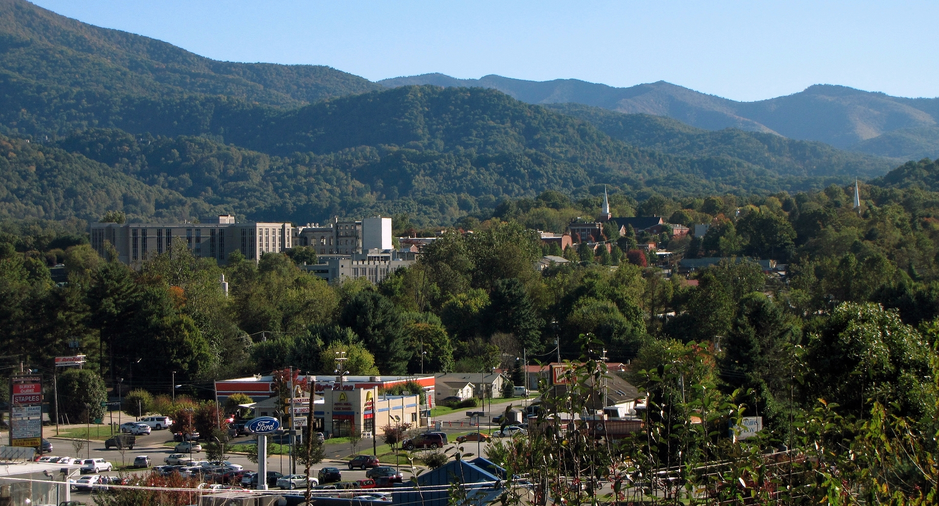 Downtown Waynesville, North Carolina in October 2013